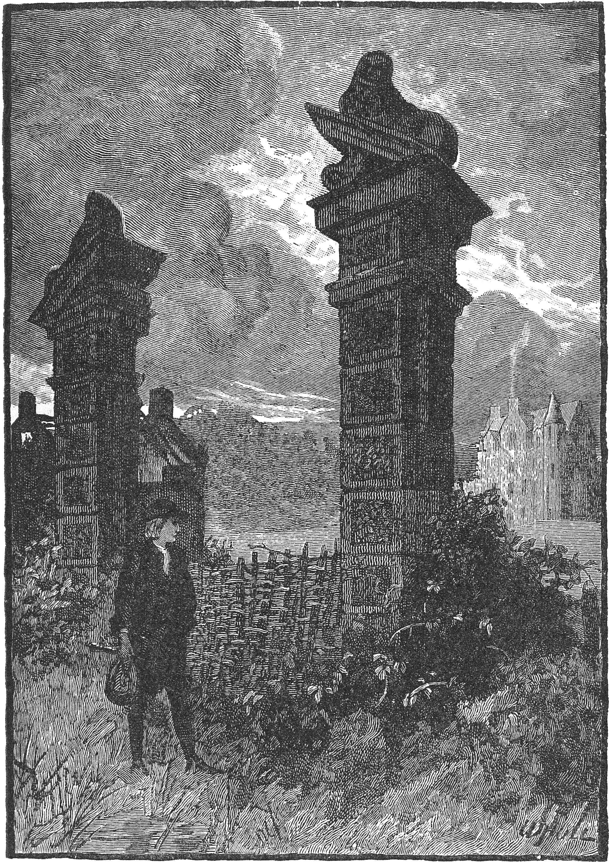 "It was meant to be a main entrance, but never finished" (chapter II, « I Come to My Journey's End »)